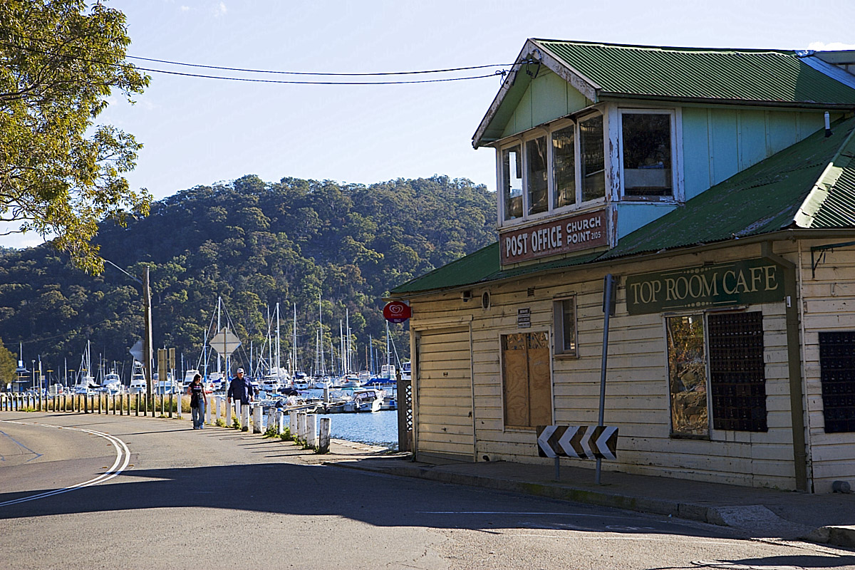 Post Office, store and cafe at Church Point; taken by me, mfunnell; 03AUG2006